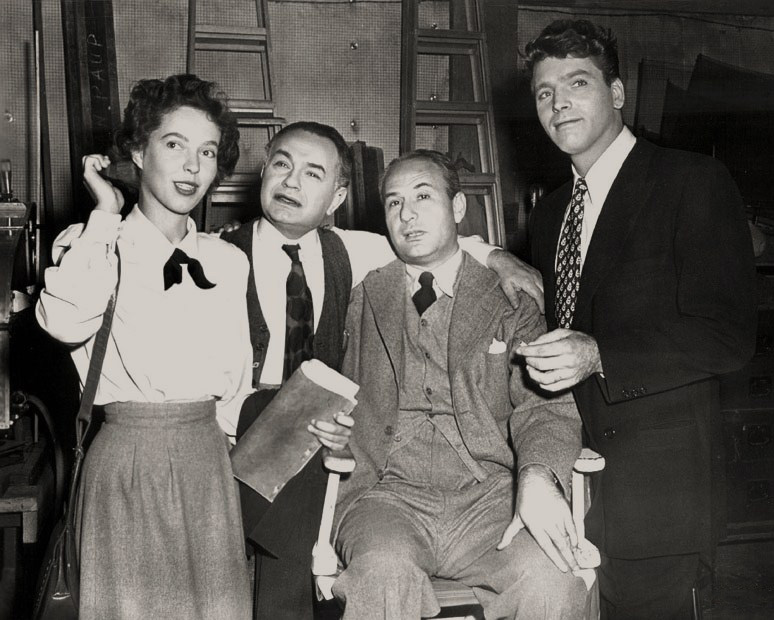 L. to R. : Louisa Horton, Edward G. Robinson, Chester Erskine (producer) & Burt Lancaster on the set of All My Sons (1948) - publicity still.